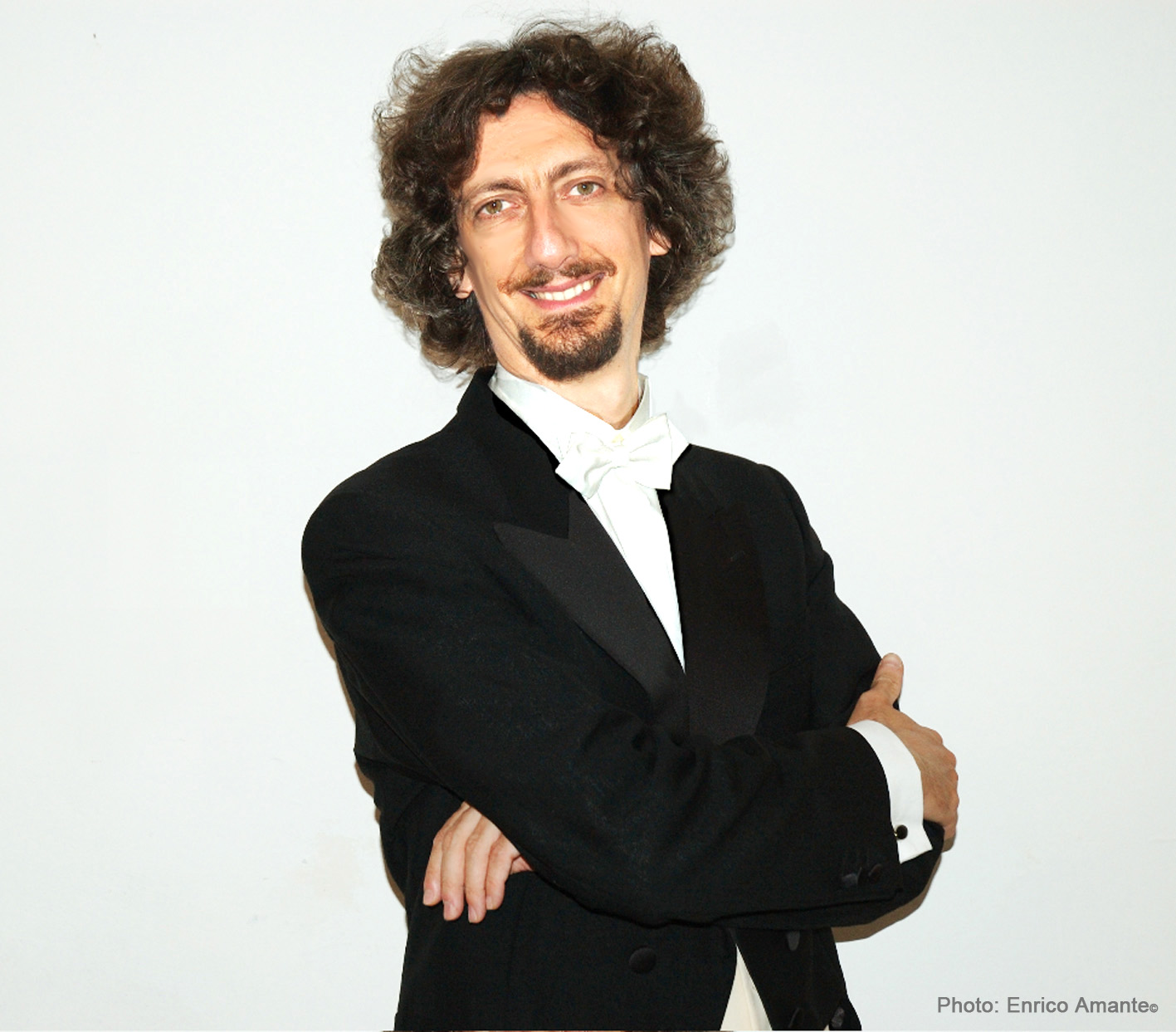 Federico Maria Sardelli